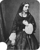 Photograph of Laure le Poittevin (1821-1903), Guy de Maupassant's mother